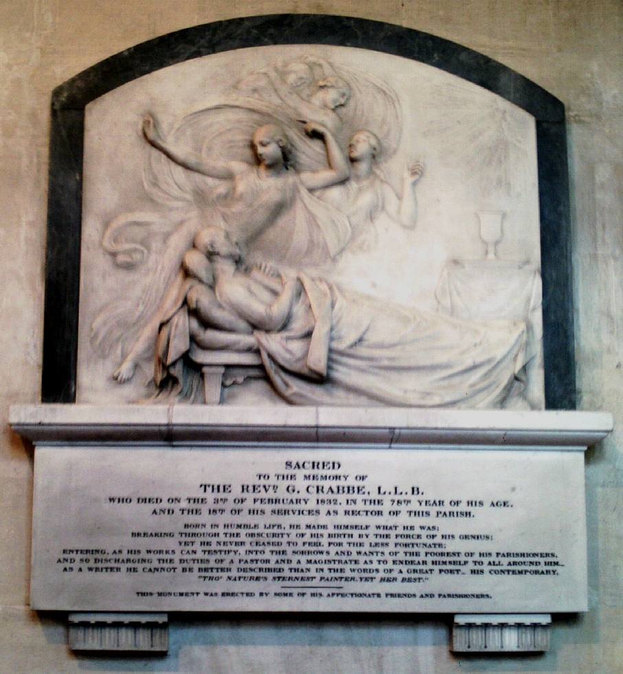 Monument to poet George Crabbe in St. James Church, Trowbridge, Wiltshire, England.